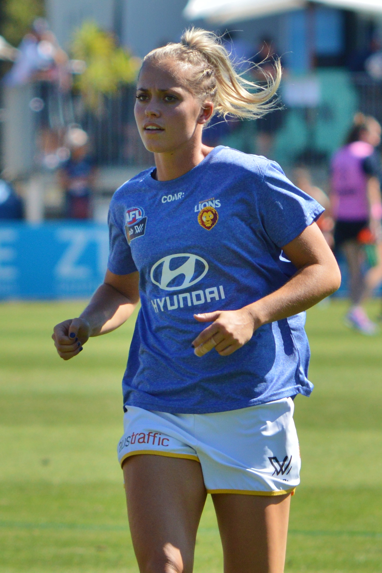 Kaitlyn Ashmore in Round 7 of the 2017 AFL Women's season